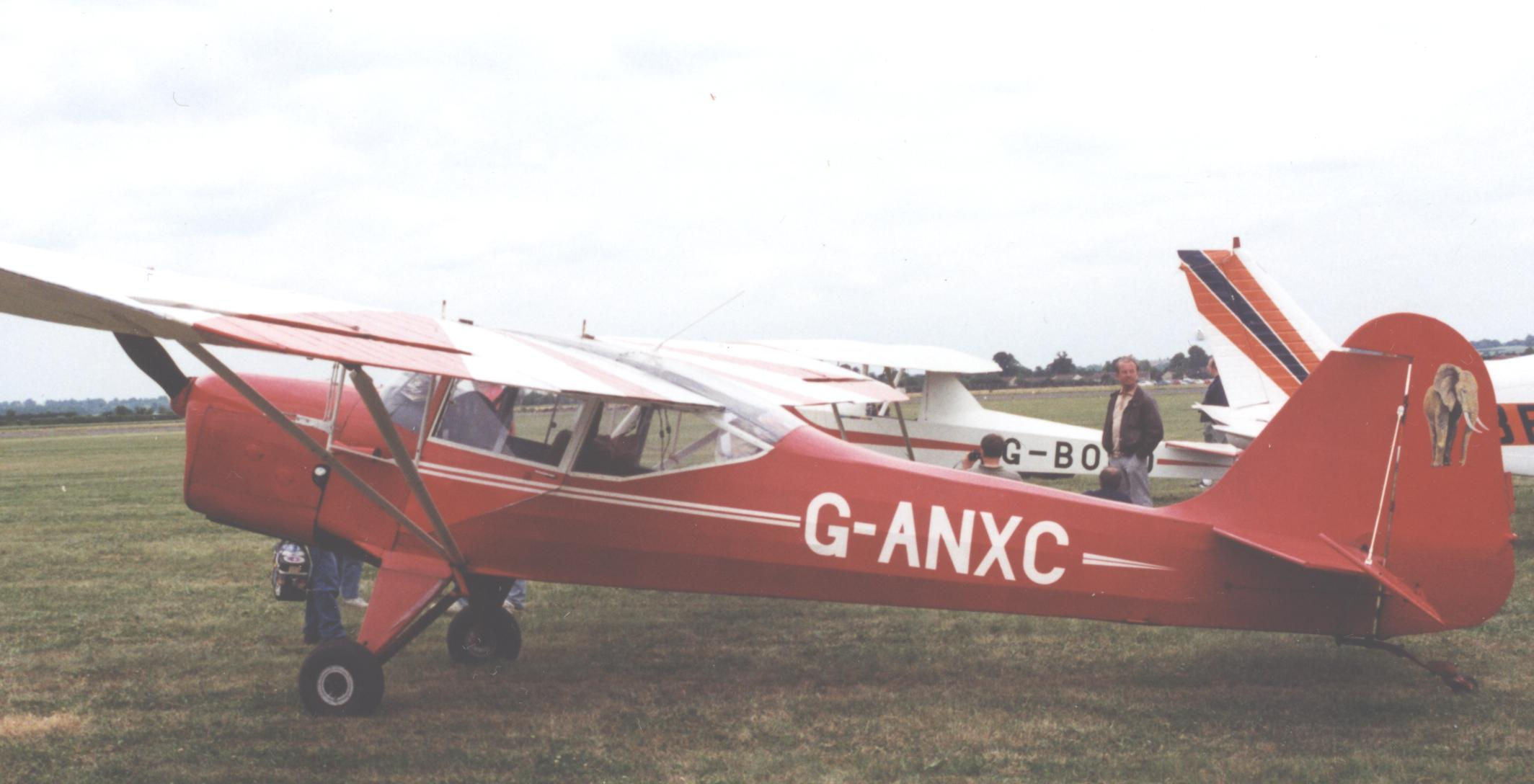 Auster J/5R Alpine G-ANXC at Wellesbourne Mountford airfield near Stratford-on-Avon